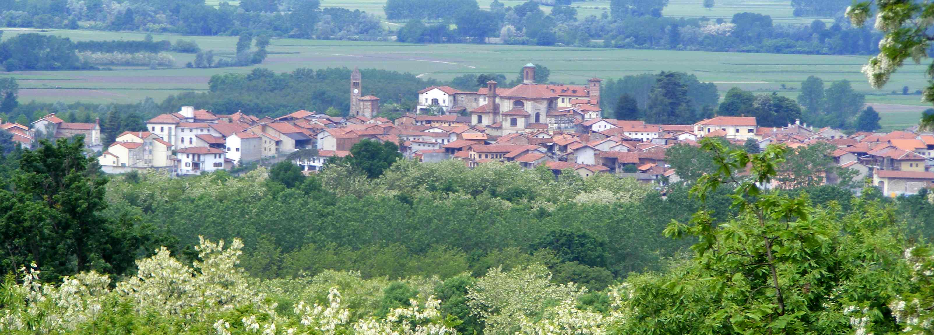 Borgomasino (TO, Italy) as seen from east